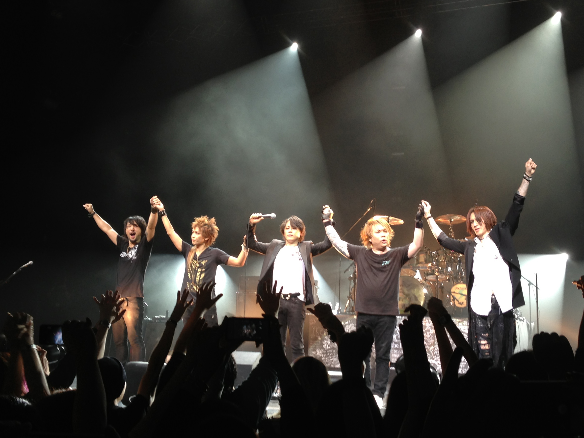 Luna Sea in Singapore on February 8, 2013.